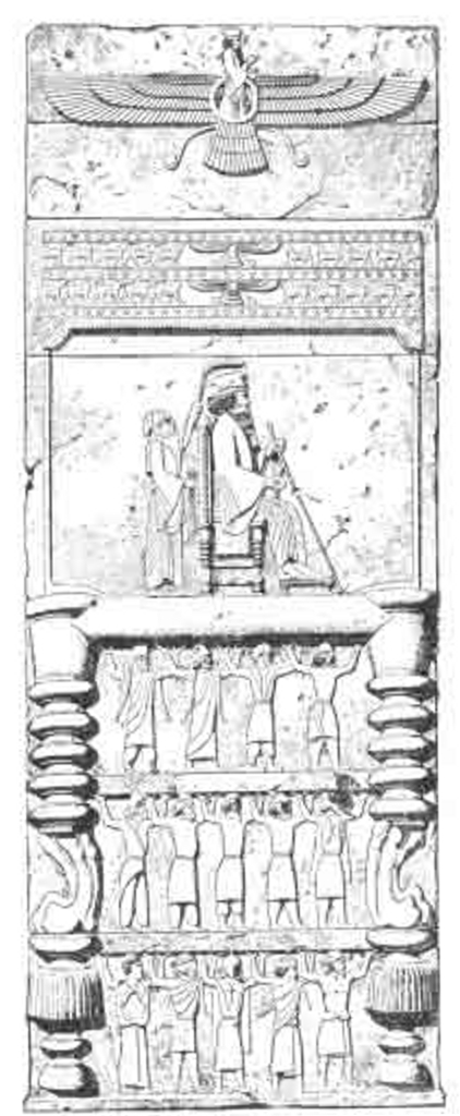 Persepolis Relief by Flandin